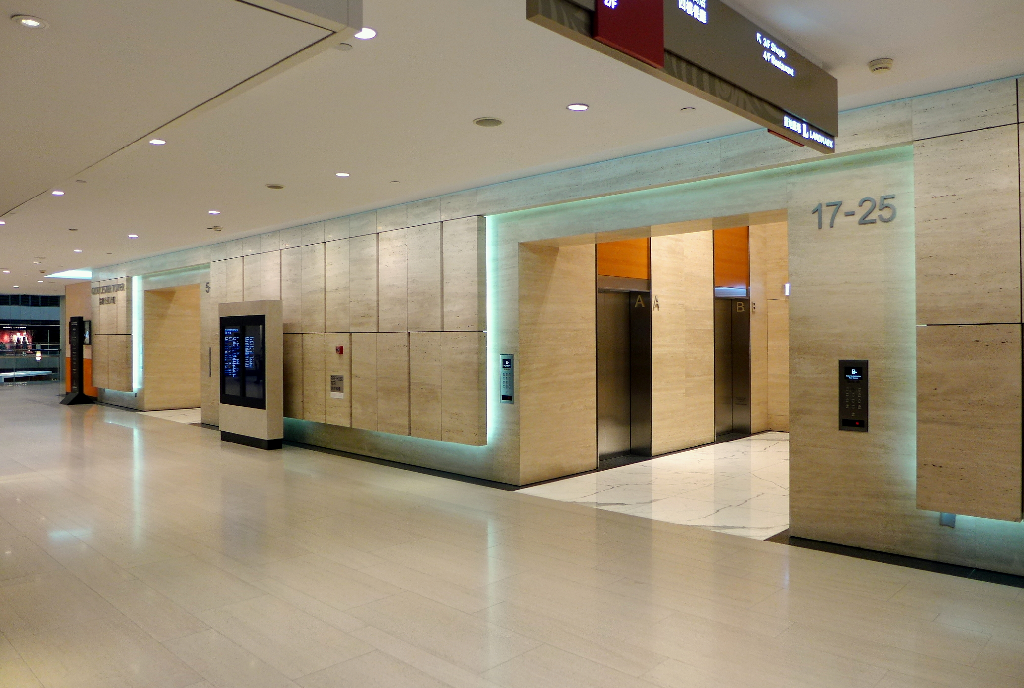 Gloucester Tower Lobby